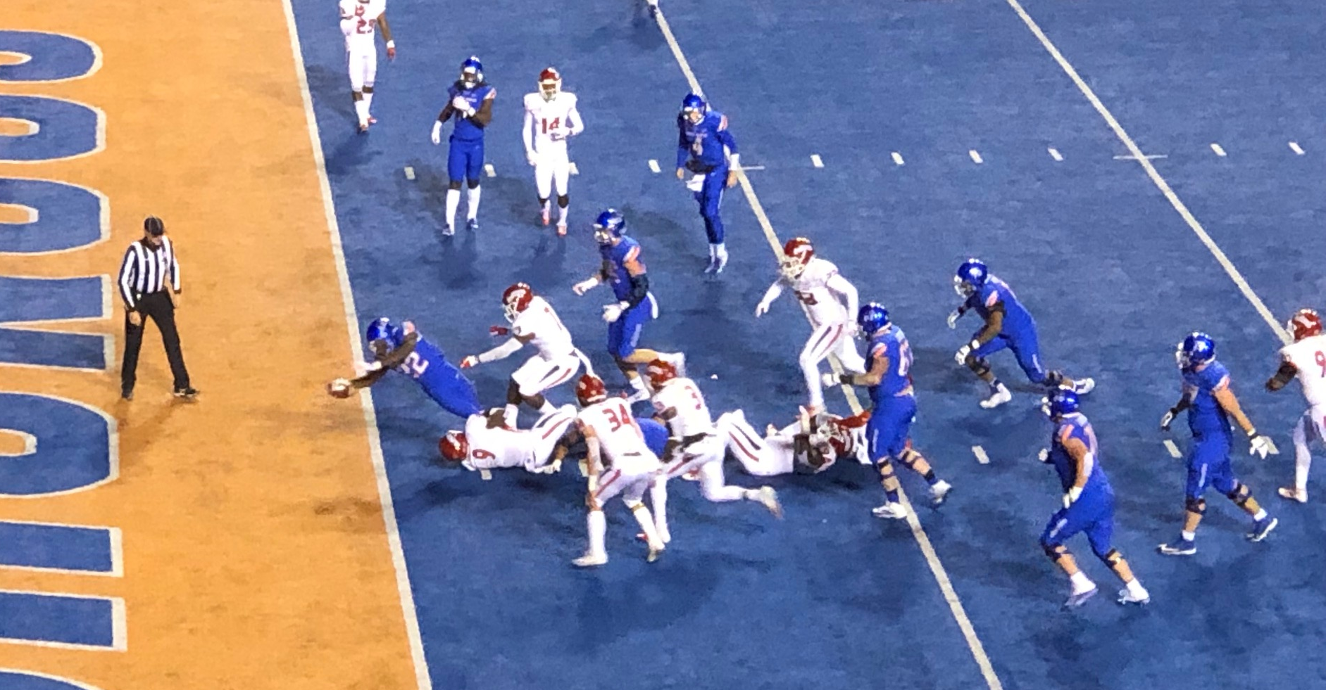 Boise State running back Alexander Mattison scoring a touchdown in the 3rd quarter of the Broncos game vs No. 16 Fresno State at Albersons Stadium in Boise, Idaho on November 9, 2018.